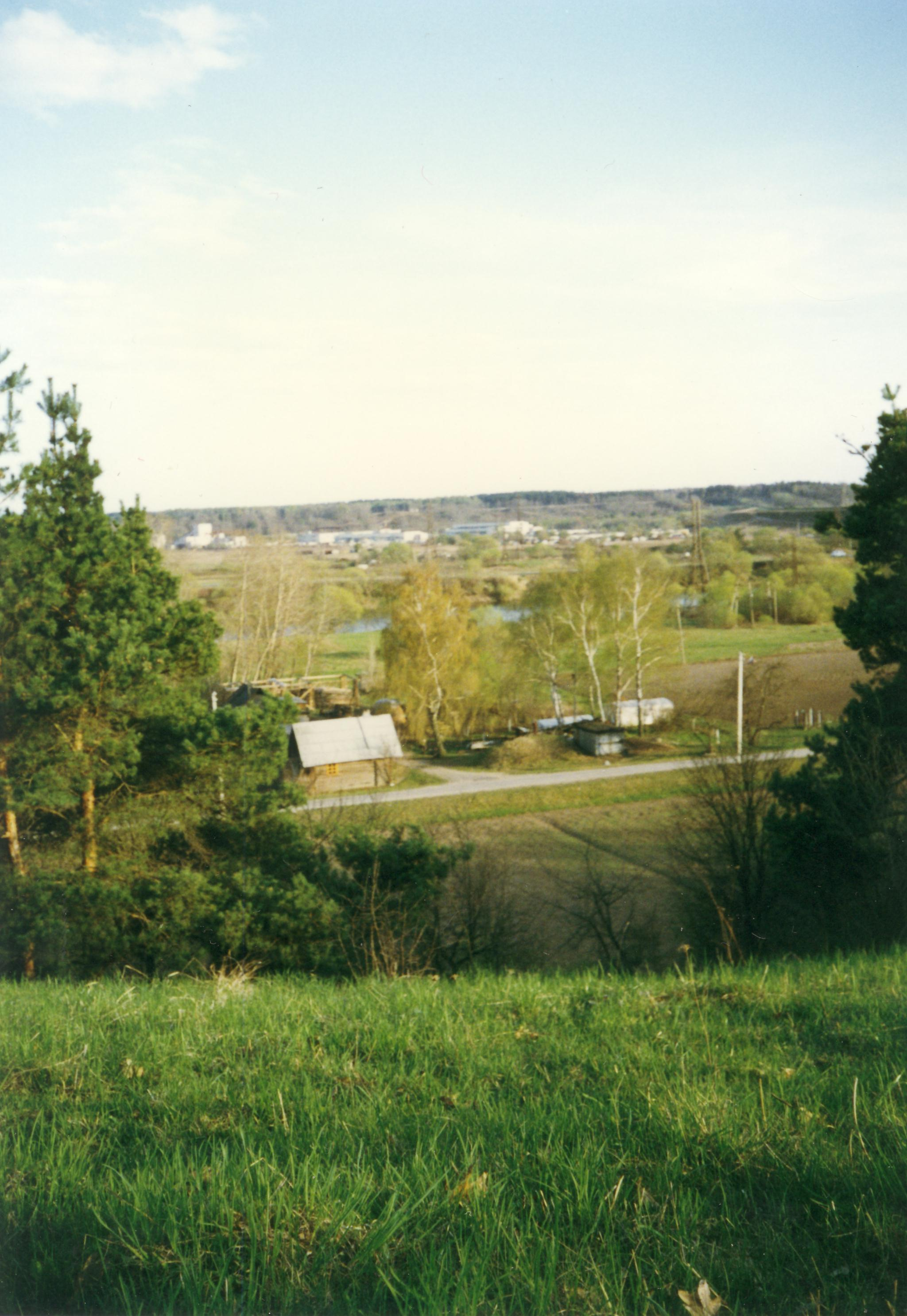 Vaizdas nuo M/U gyvenvietės pusės, Jonava